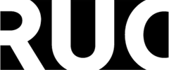 Roskilde Universitets mærke